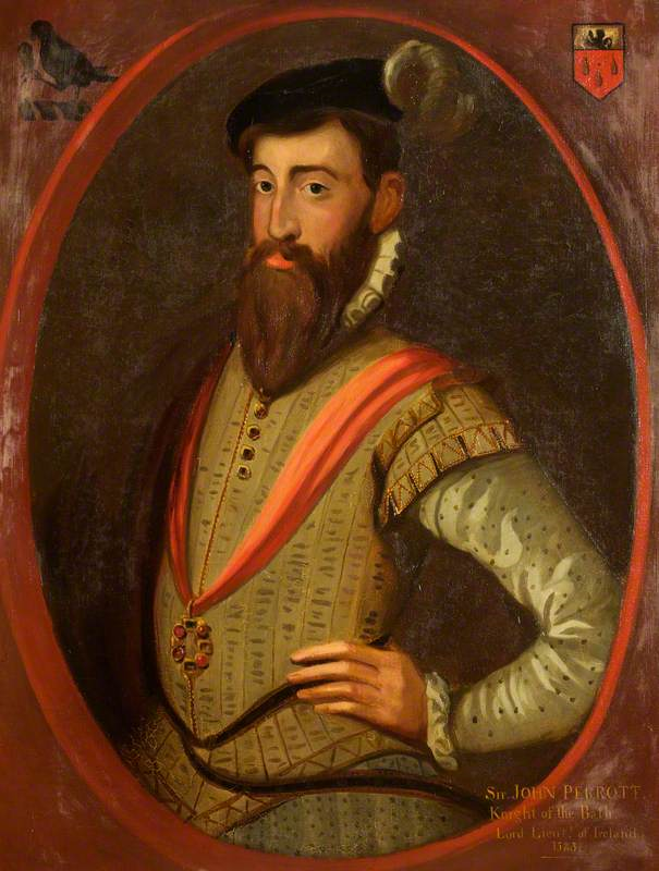 portrait of Sir John Perrot (c. 1527-1592), Lord Deputy of Ireland